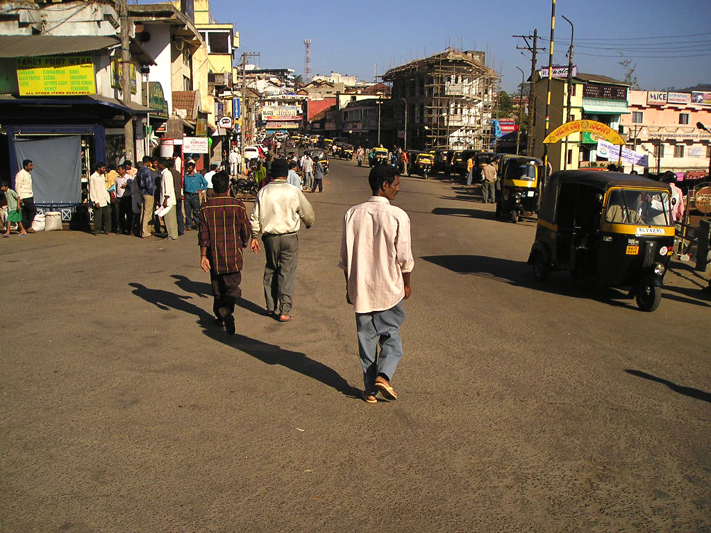 City of Madikeri in Karnataka, India.